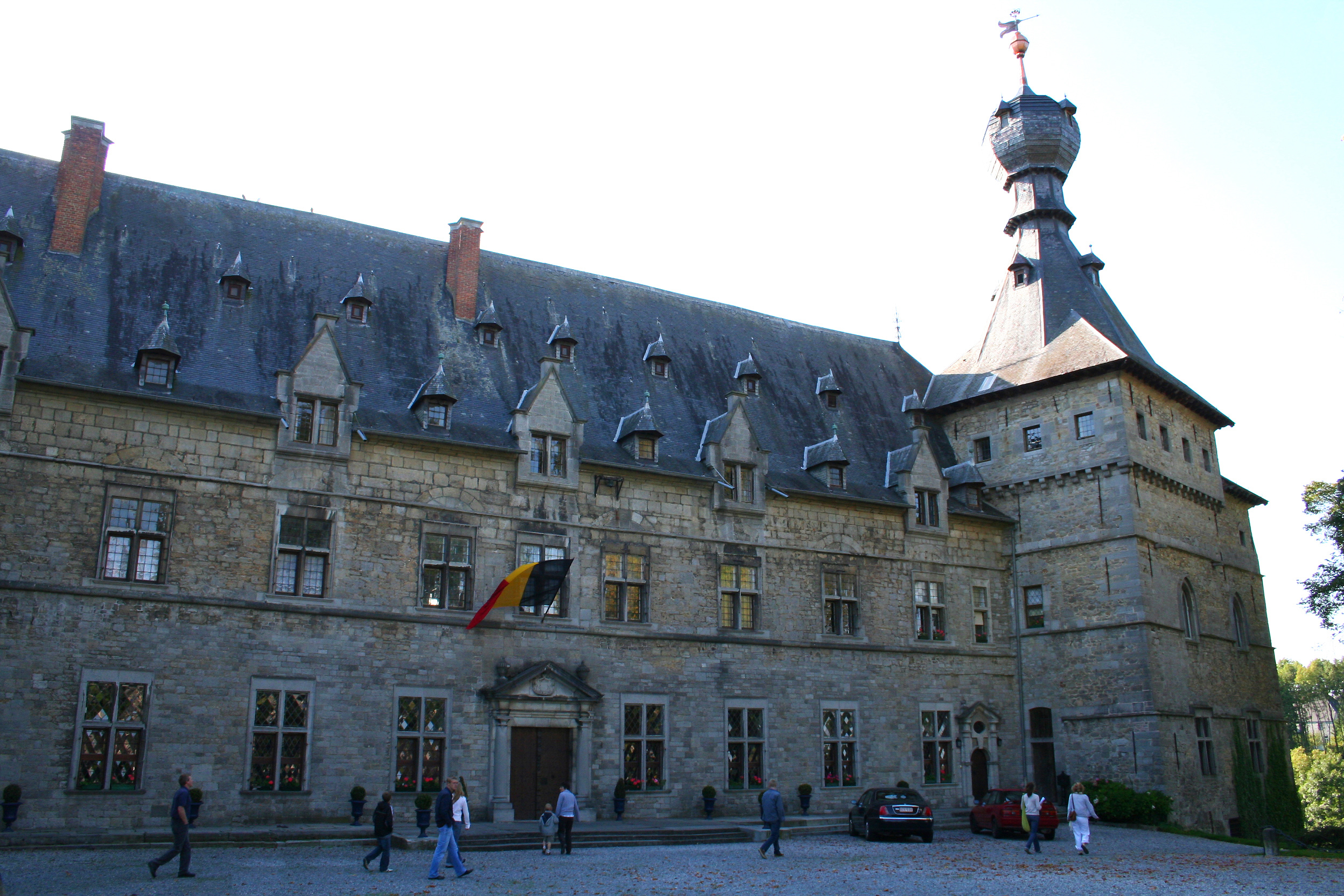 Chimay (Belgium), castle of the princes of Chimay (XIII/XIXth centuries).